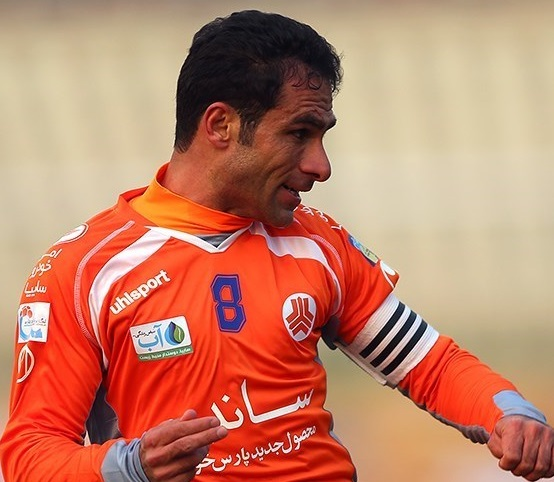 Ebrahim Sadeghi